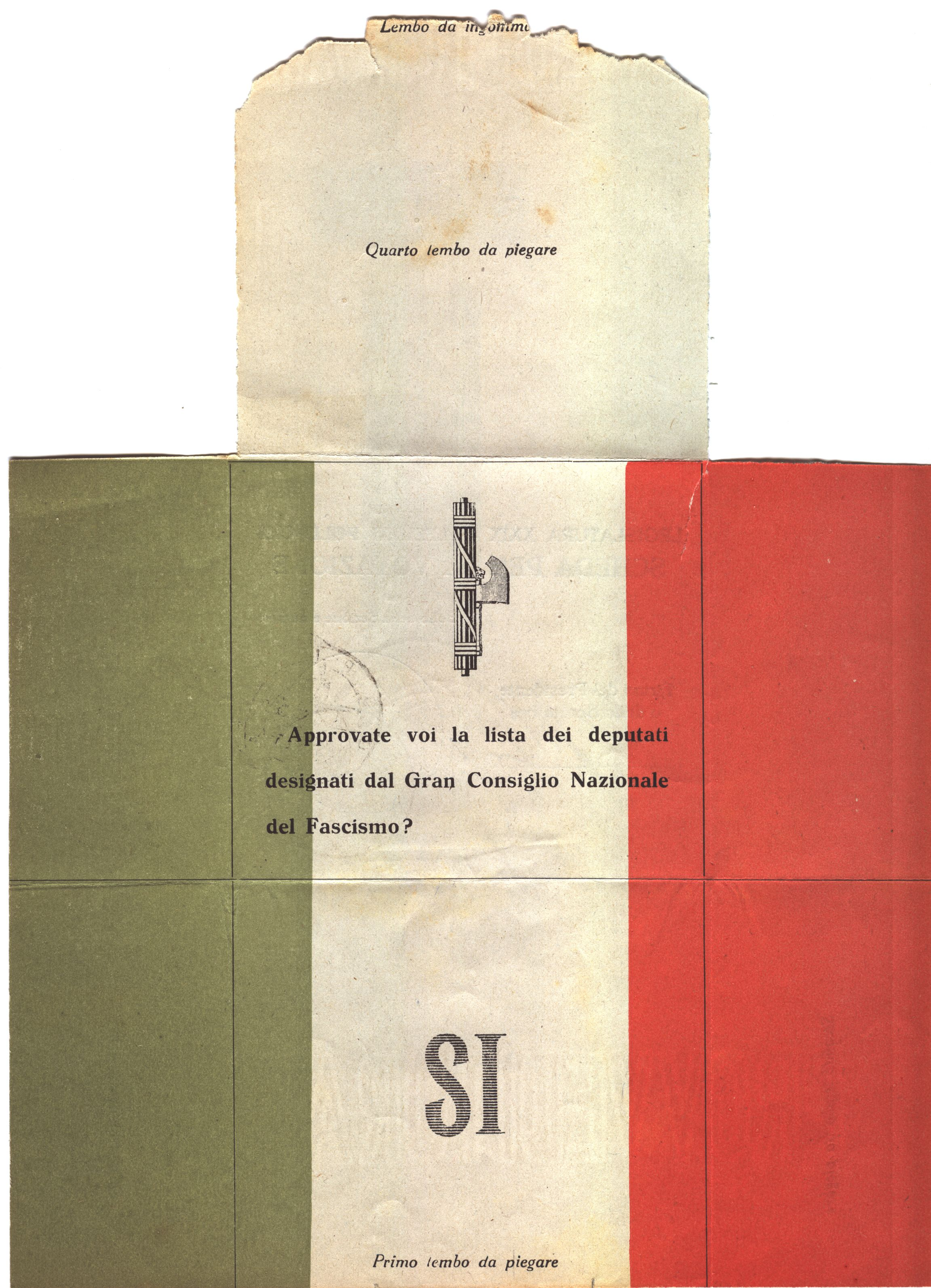 Fascist ballot paper, Legislatura XXIX, politic election, 25 marzo 1934, front side of the "Sì" (Yes) ballot paper. The "NO" ballot paper is similar but completely white (without the Italian flag colour), so the vote was not secret. You can read: "Do you agree with the list of deputies chosen by the Grand Council of Fascism?"